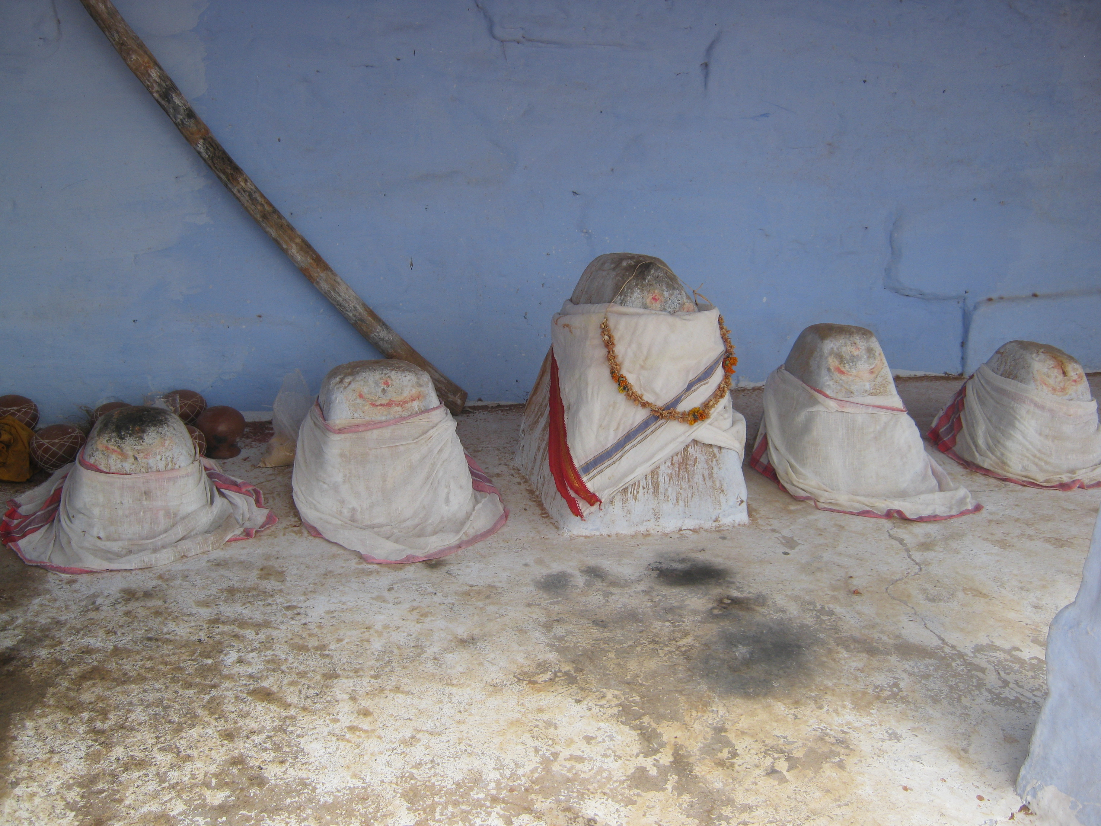 In villages you can see such worships. Snapped at "Therku Pappankulam", Tnvli dist.